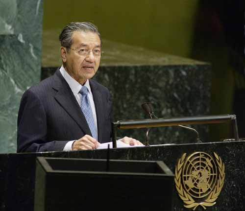 Former Malaysian Prime Minister, Tun Dr Mahathir Mohamad addressing the General Assembly on September 25, 2003.